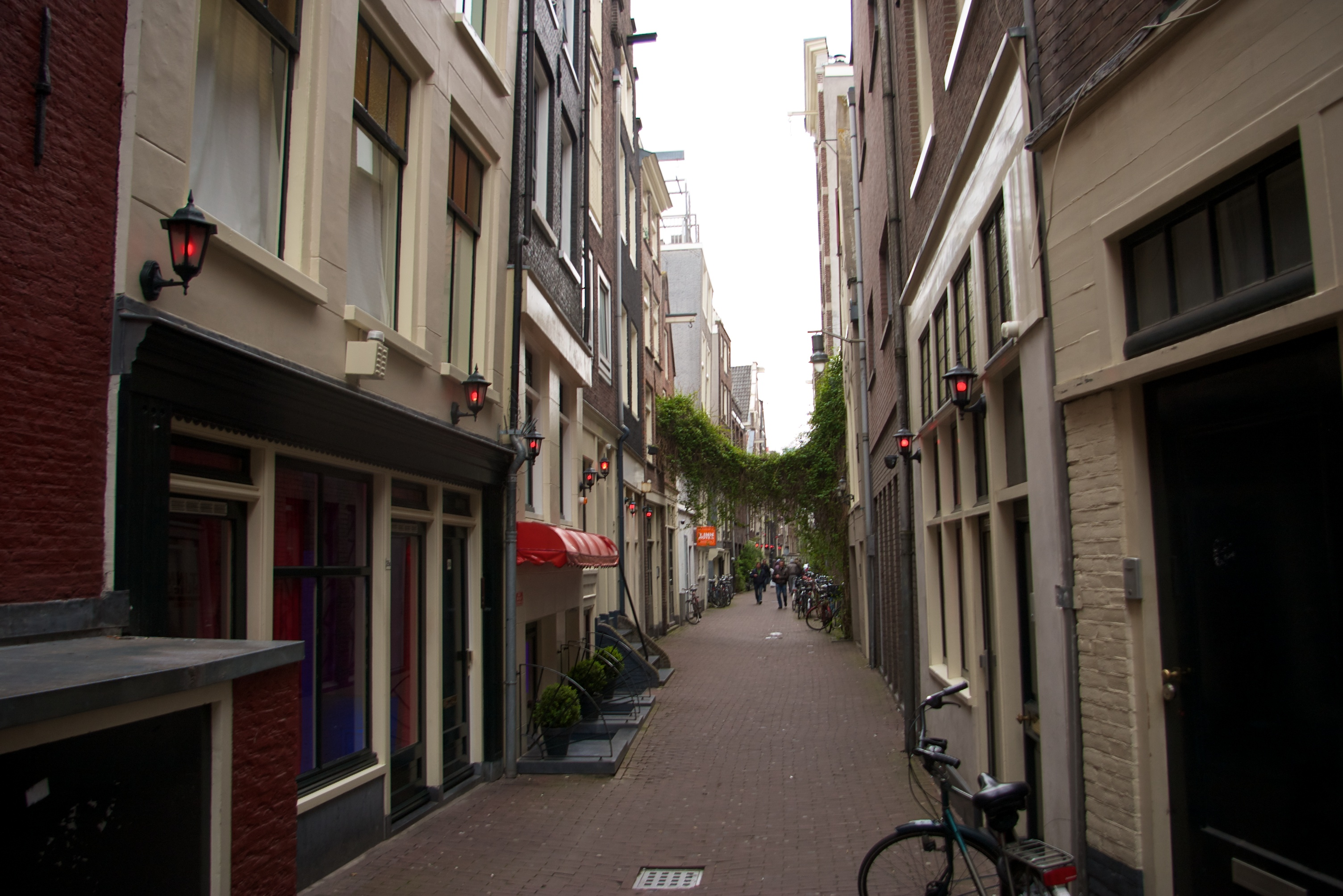 Looking up Teerketelsteeg, a street in the centre of Amsterdam lined with the Red Light District's famous window girls.